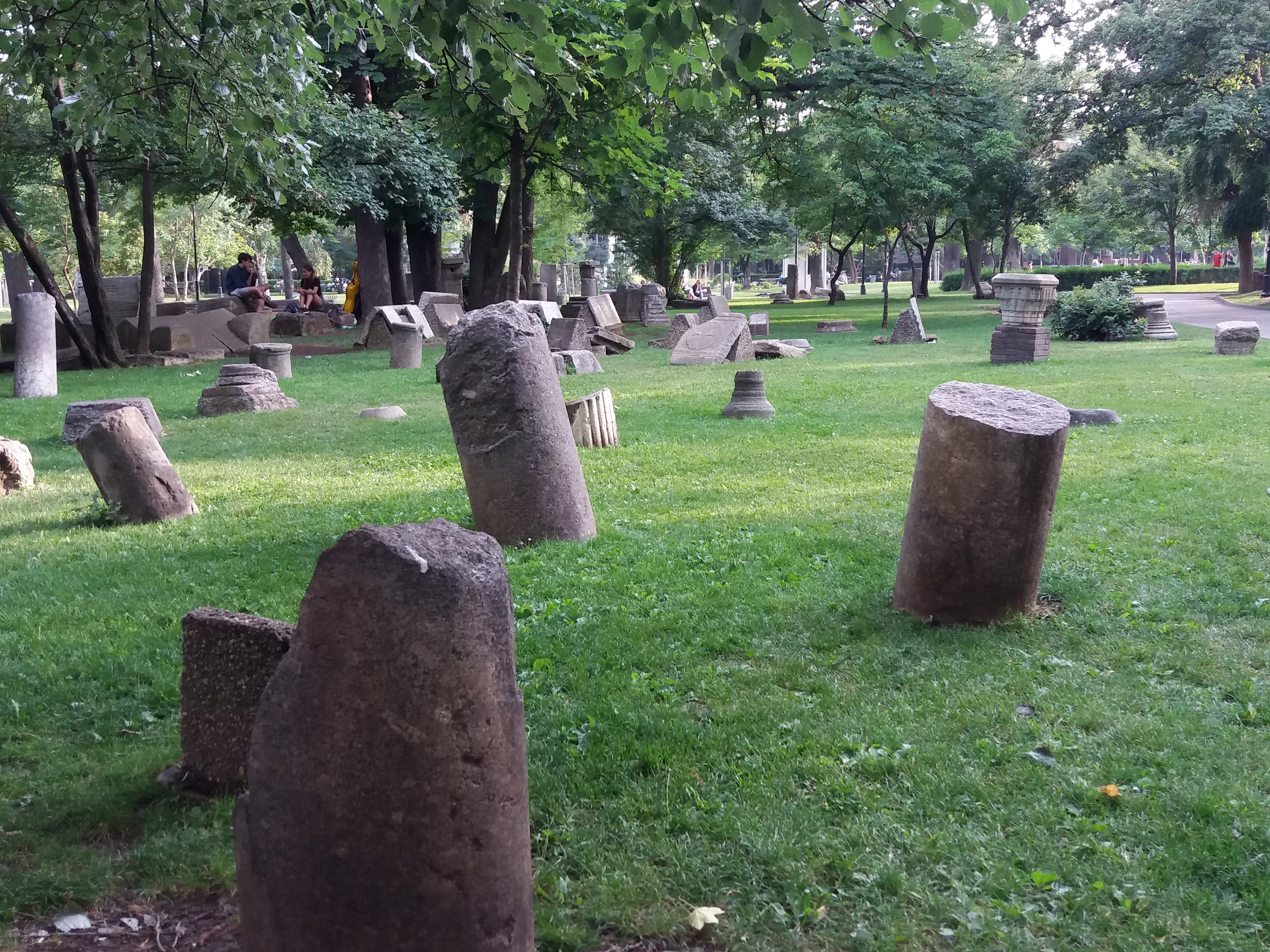 Doctors' Garden Lapidarium, Sofia, Bulgaria